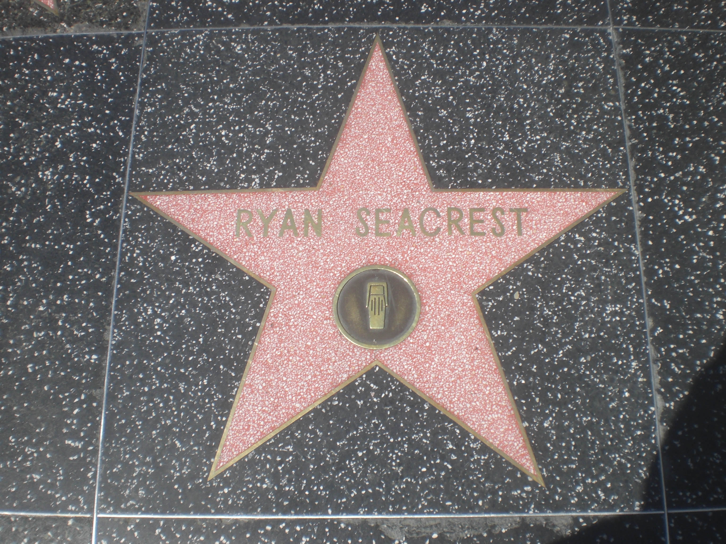 Ryan Seacrest's star on the Hollywood Walk of Fame